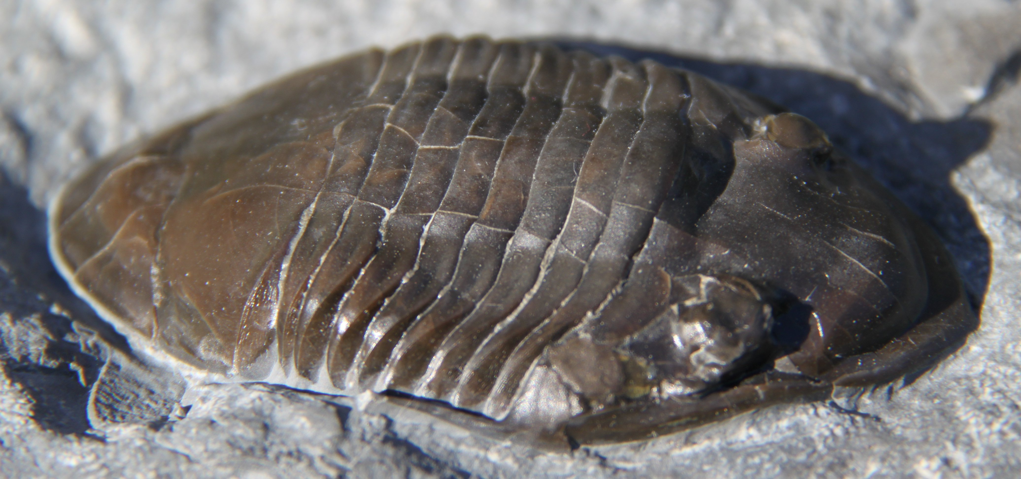 An Isotelus cf. gigas/malfitzi trilobite, Order Asaphida, Family Asaphidae, 65mm along the axis, lateral view, collected near Rochester, New York, USA, from the Silurian